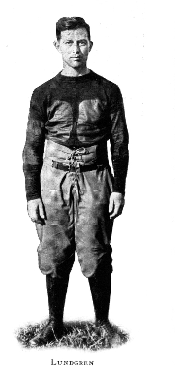 Photograph of Carl Lundgren, assistant football coach 1919